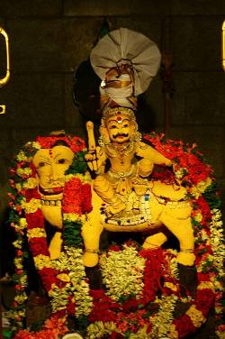 Kurukkatti masi periyasamy temple குருக்கத்தி மாசி பெரியசாமி கோயில்